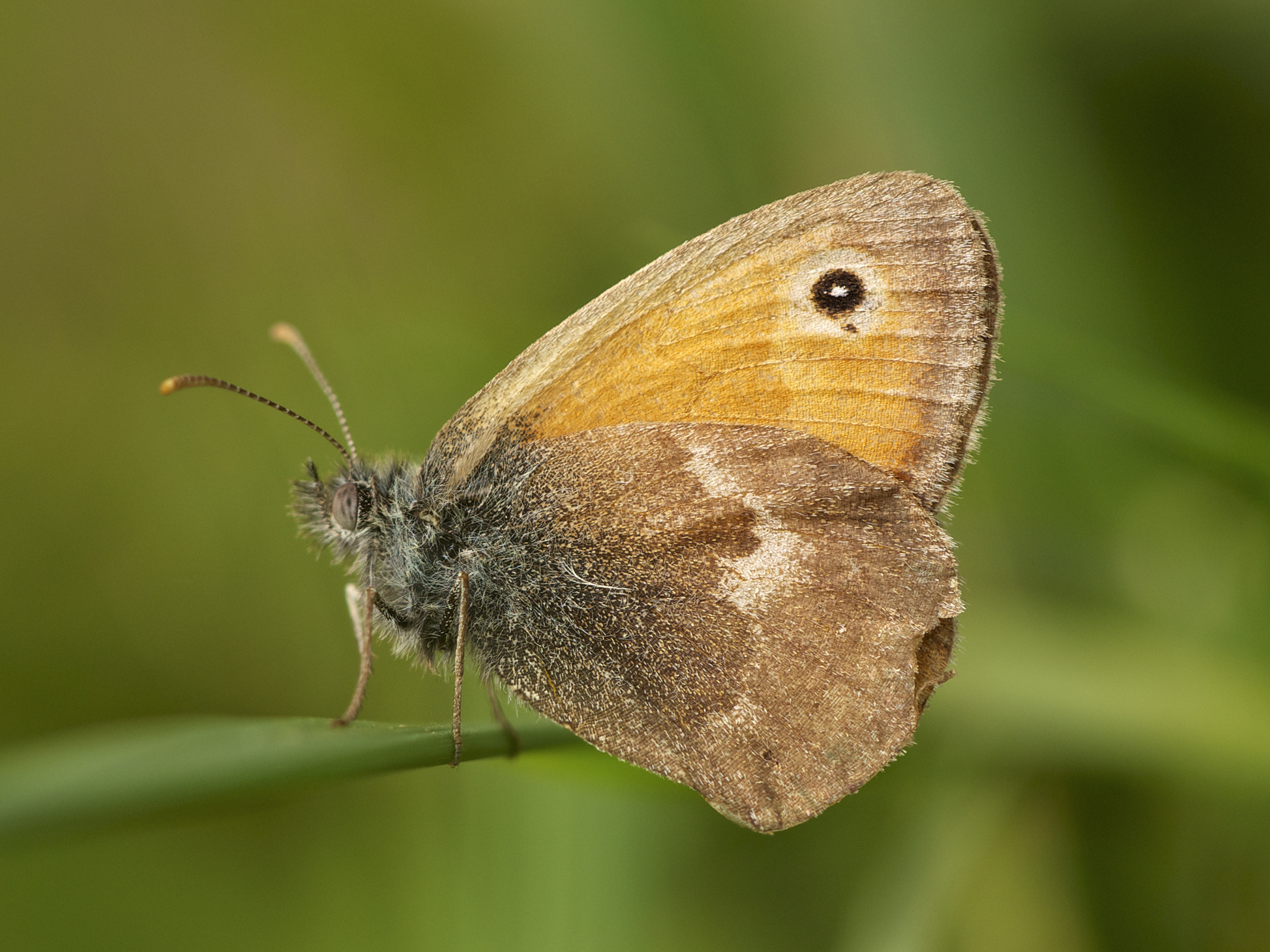 Small Heath (Coenonympha pamphilus), Wittgensdorf, Germany